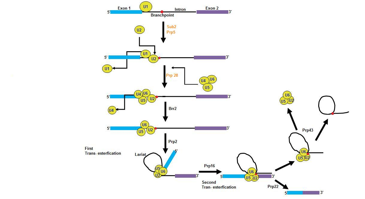 Spliceosome assembly